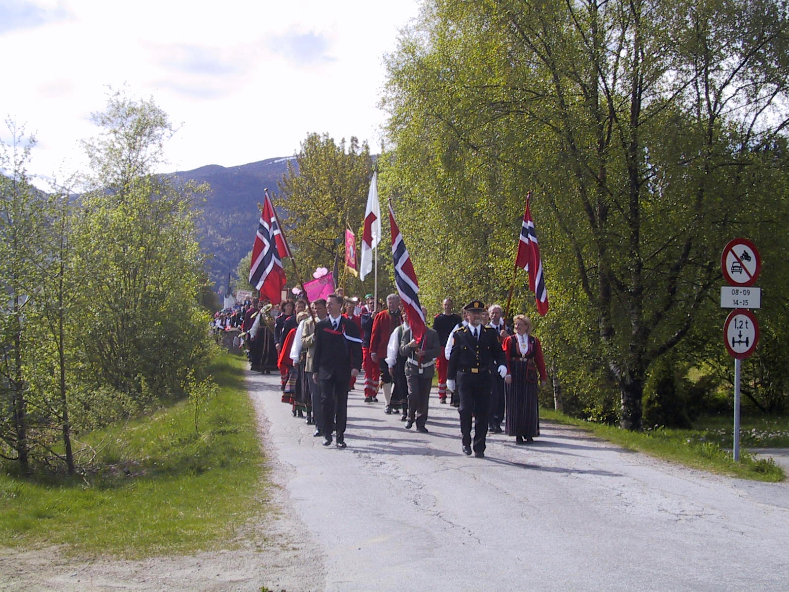 Naustdal, Norway, may 2003.